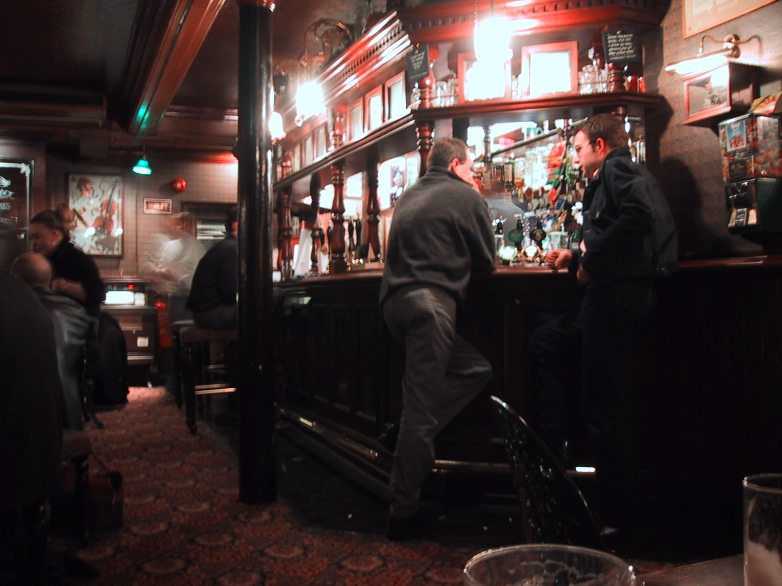 Bar Szene im Sherlock Holmes Pub in London : At the Sherlock Holmes Pub in London Address: 10-11 Northumberland St, Westminster, London WC2N 5DB Source: own work Date: April 2001, London, England Author: Maschinenjunge Licence: GFDL, cc-by 3.0 de: Pub